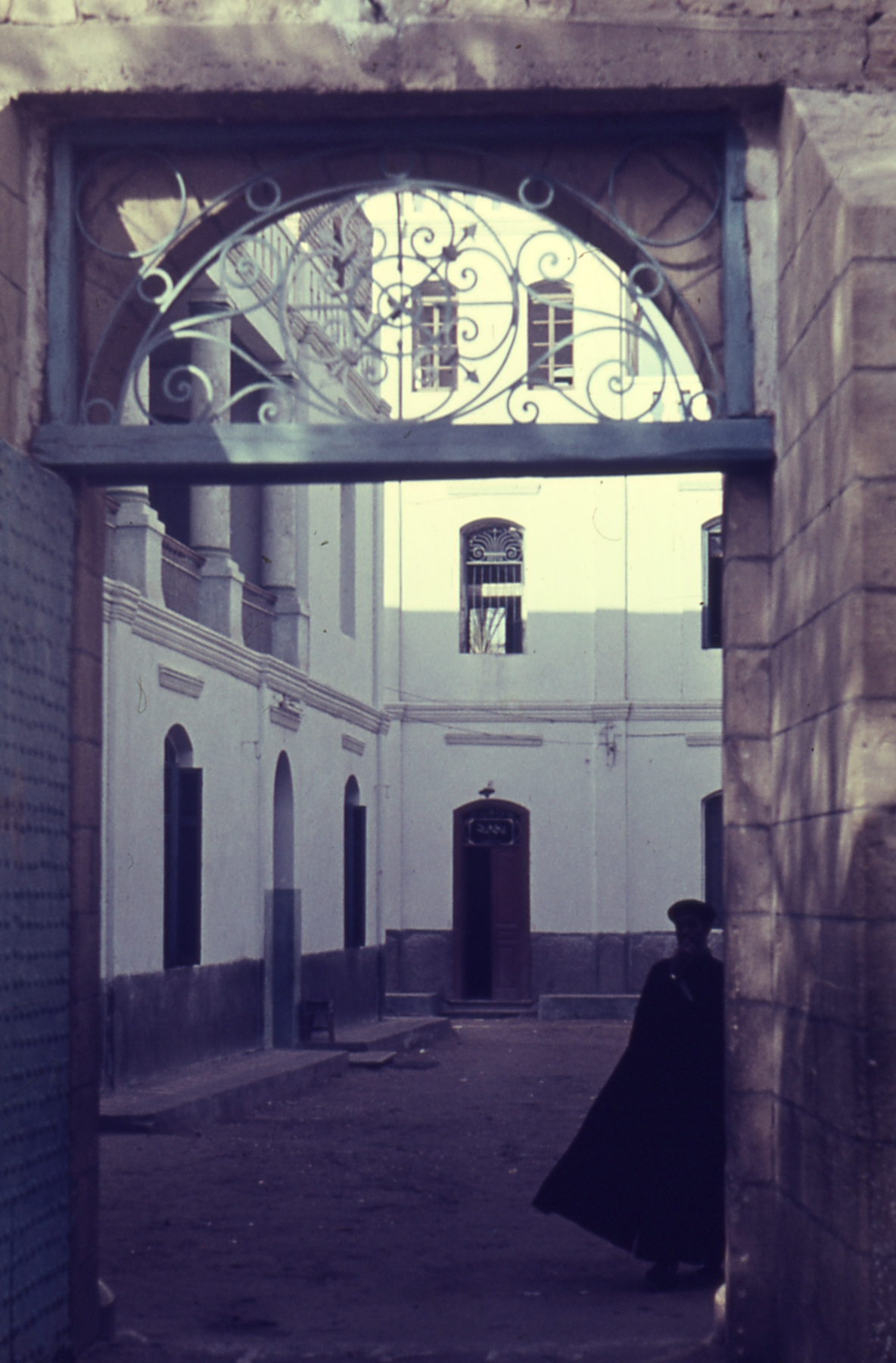 Coptic Monastery in Egypt